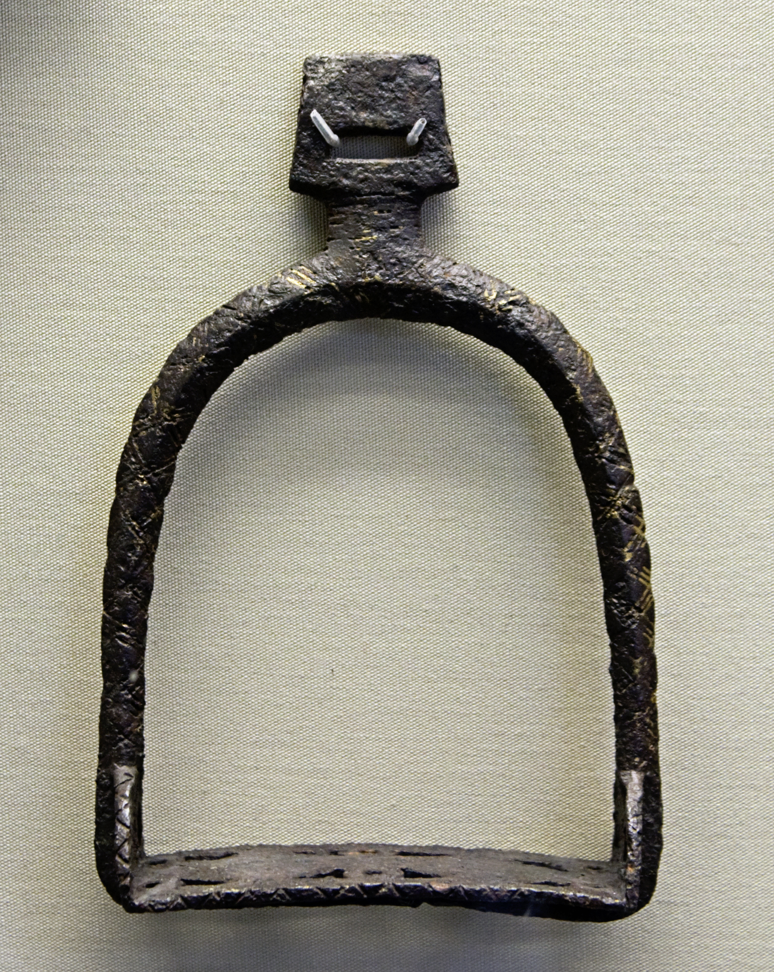 Stirrup from Russia, now in the British Museum. Tag on exhibit says: "Iron stirrup with silver and brass inlays. Possibly Khazar, 9th-10th century AD, from near Bielowodsk, Perm, Russia. MME 78,5-9,46" See BM database entry for more details.